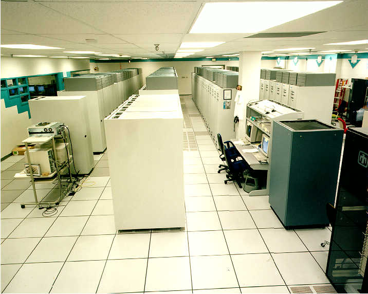 All four rows of ASCI Red (end view) inside Sandia National Laboratories.